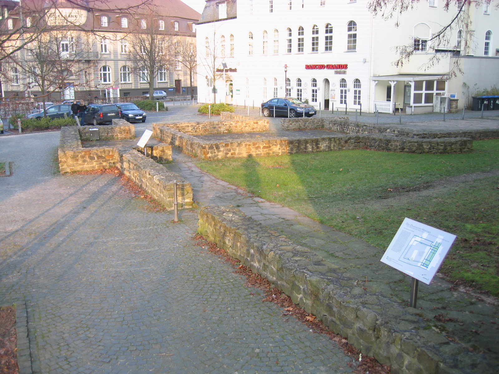 Ruins of Herford abbey near Herford Cathedral in Herford, District of Herford, North Rhine-Westphalia, Germany.